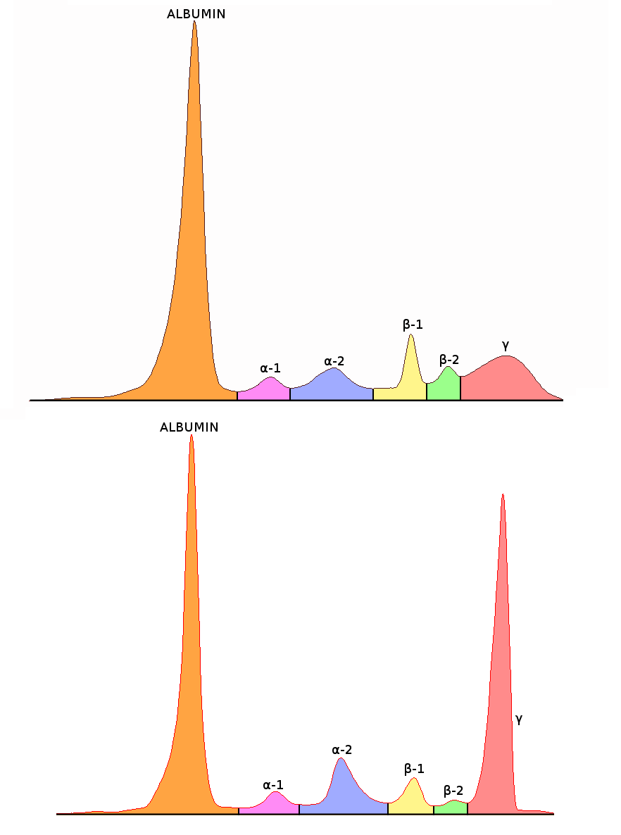 An example serum protein electrophoresis. Albumin (orange), alpha-1 (pink), alpha-2 (blue), beta-1 (yellow), beta-2 (green) and gamma (red) peaks are shown. Antibodies are mostly found in the gamma region. The top image shows serum protein electrophoresis from a normal individual with polyclonal antibodies (no peaks in the gamma region). The bottom image a monoclonal antibody present (paraprotein), which presents as a peak in the gamma region.